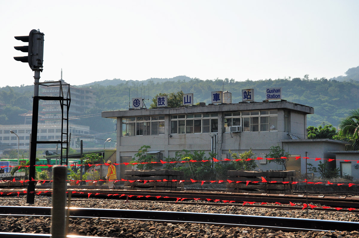 GuShan Station is a freight station of Taiwan's Western main rail line.